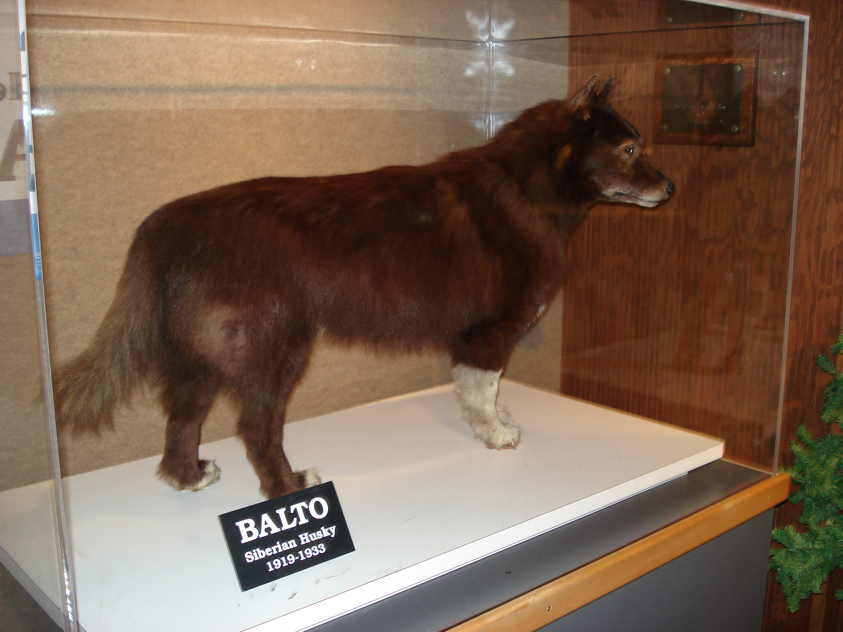 Balto at the Cleveland Museum of Natural History. Photo by: Luke Scarano Permission granted to copy, publish, broadcast or post but please credit 'photo by Luke Scarano'